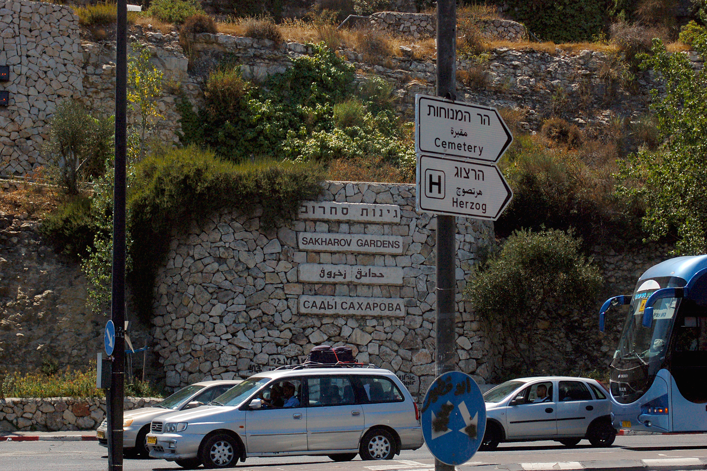 Jerusalem, Givat Shaul, Sderot Ben Gurion, Sakharov Gardens - Har HaMenuchot sign.